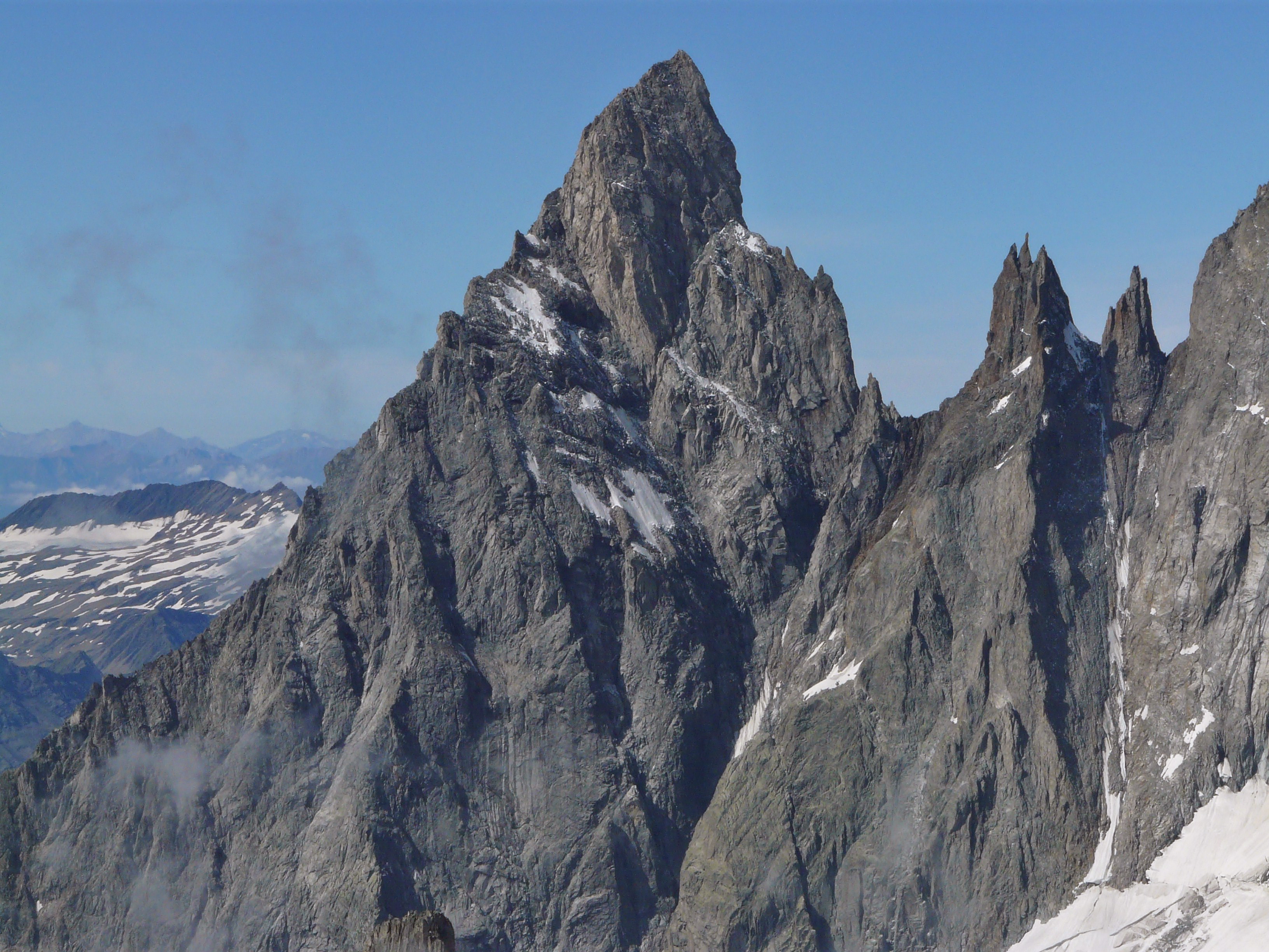 Aiguille Noire de Peuterey and Les Dames Anglaises as seen from Punta Helbronner in 2009 July.